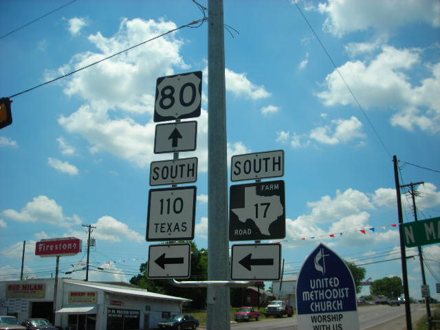 Intersection of US80 and Texas Highway 110 in Grand Saline. Photo by Danny Burton 06/05/06.